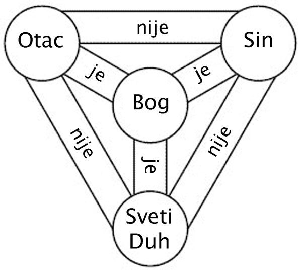 Serbo-Croatian translation of shield of Trinity diagram. For discussion and explanation, see the main article Shield of the Trinity.